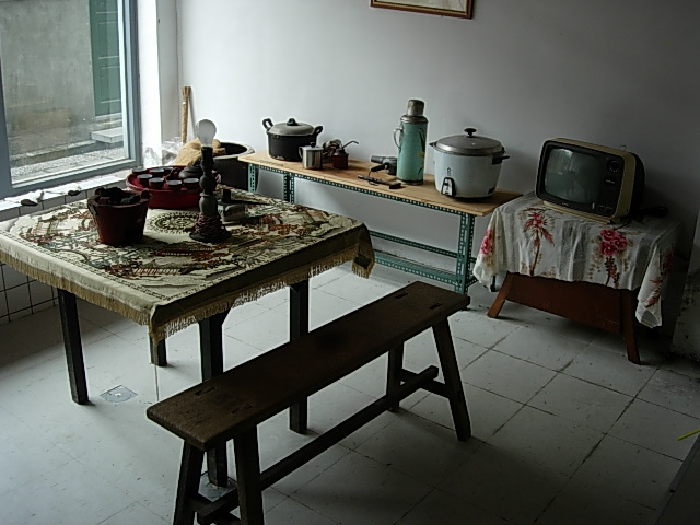 "forty four south village"(四四南村). Indoor. An old dining room. Taipei, Taiwan.